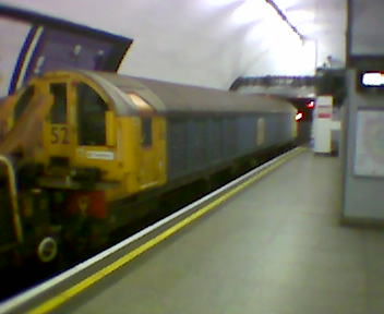 An engineers train stopped at Euston station on 5th April 2006